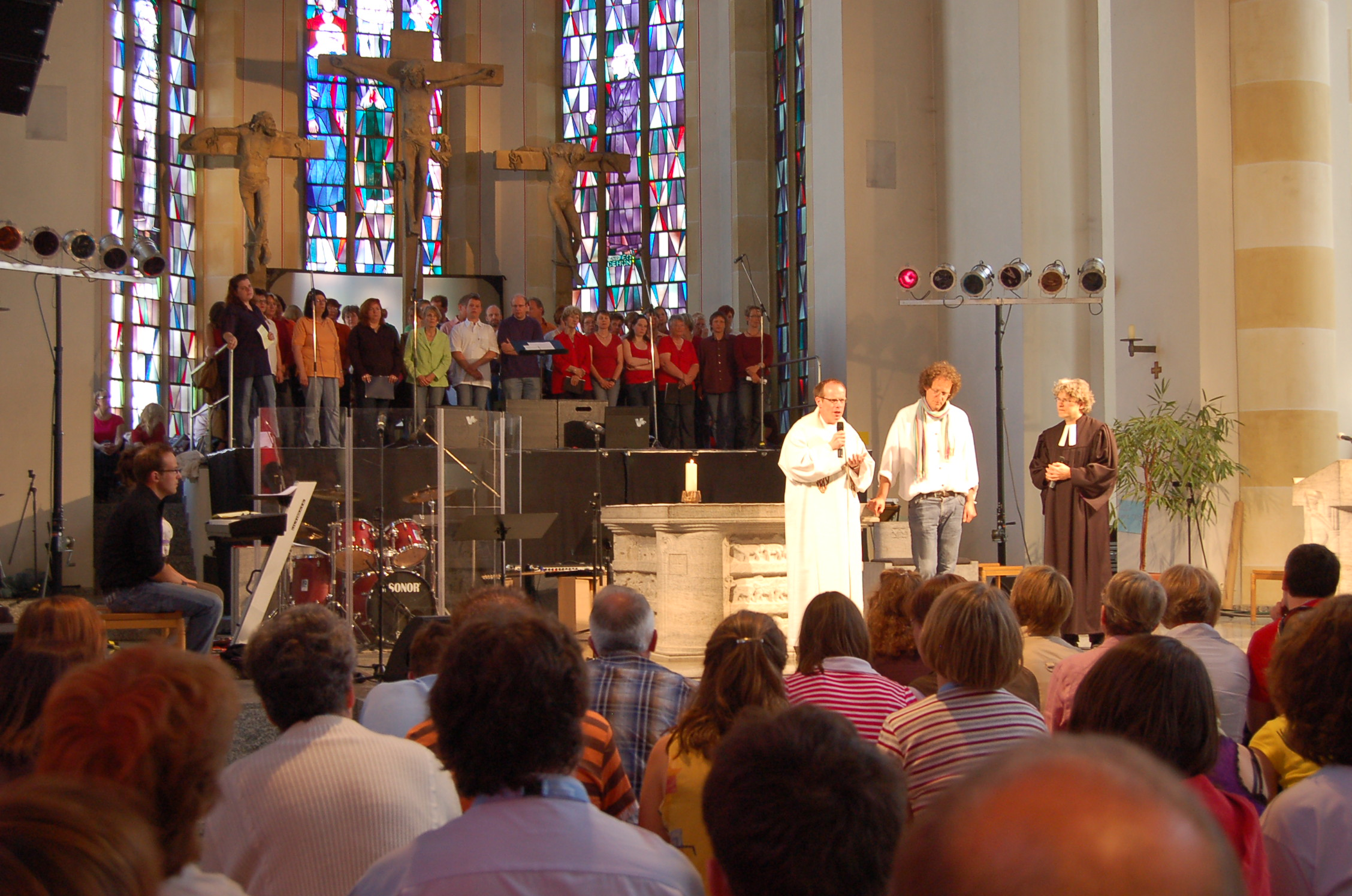 "Interplay". Ecumenical youth service during th 97th German Katholikentag in Osnabrueck